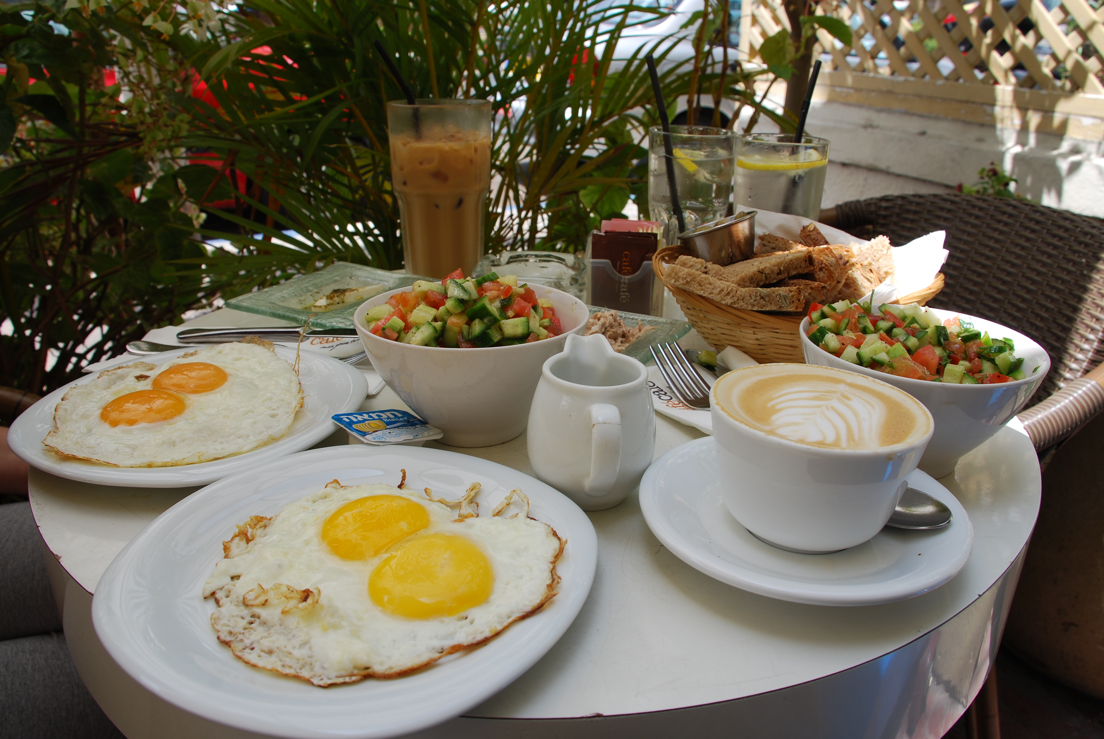 Here is breakfast at Café Café (Nordau Dizengoff crossing, Tel Aviv). Pros: Big yummy salad. Great coffee. Cons: They are a little cheap on the plates. Personal tilt: Pretty good. Overall: 8/10 About The 7 Breakfasts series: My employers gave me seven free double-breakfast coupons with a certificate of appreciation thingy. Me and Moran, hopeless breakfast fanatics, decided to document each of the morning glories.